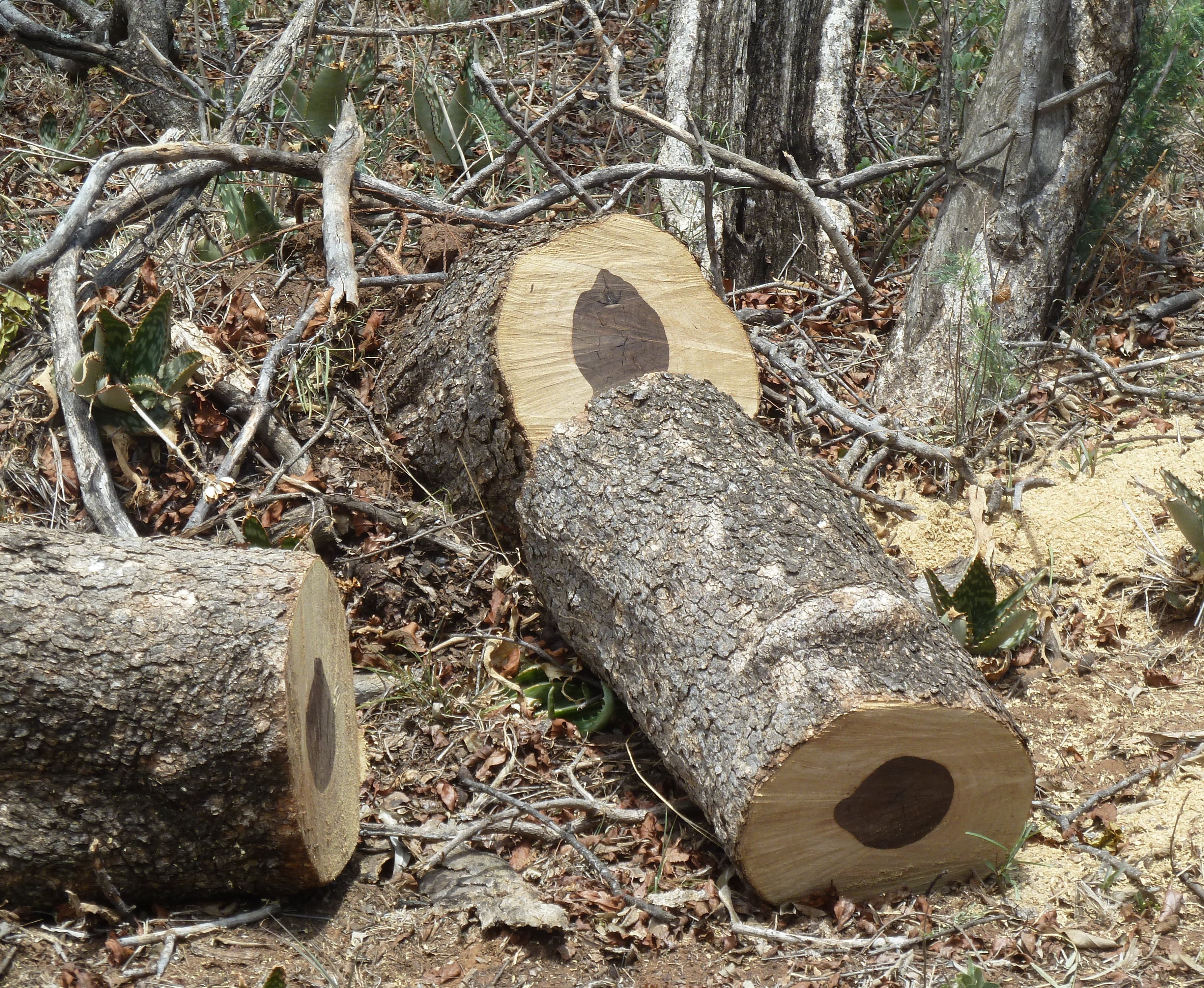 Wood of a Red bushwillow showing heartwood and sapwood. It was cut to clear the verge of a bush track near Phakama private lodge in Dinokeng Game Reserve, Limpopo.